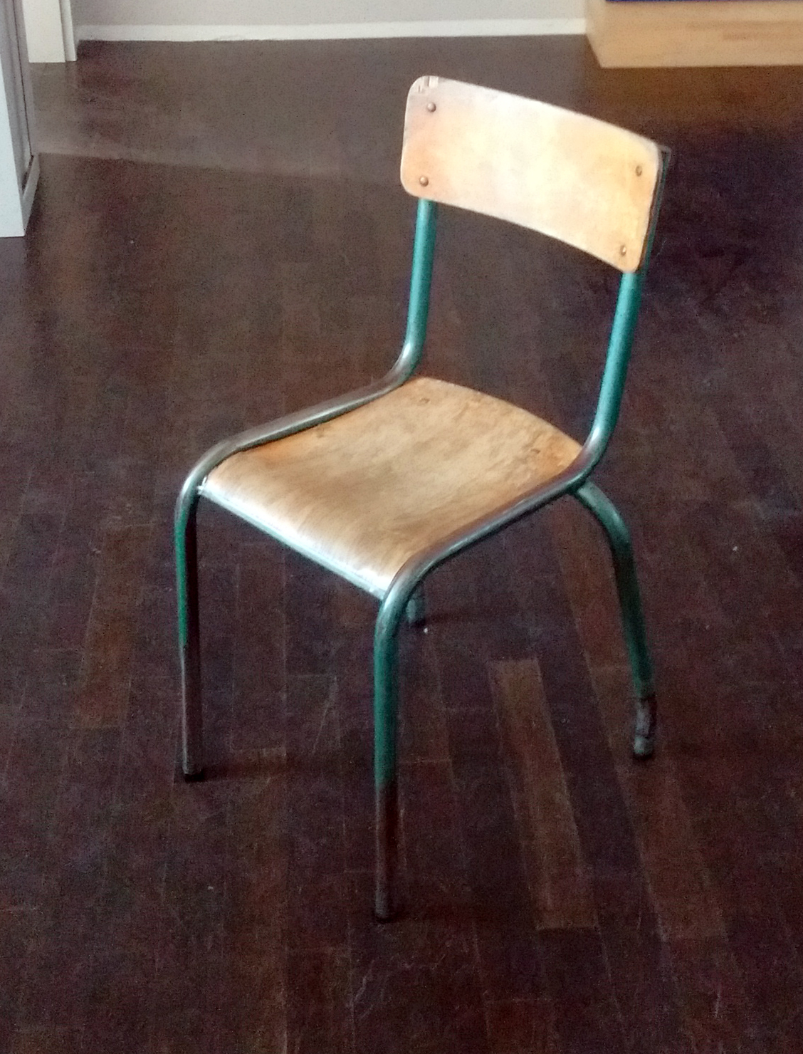 Mullca-chair, made in France by Mülller & Cavallon